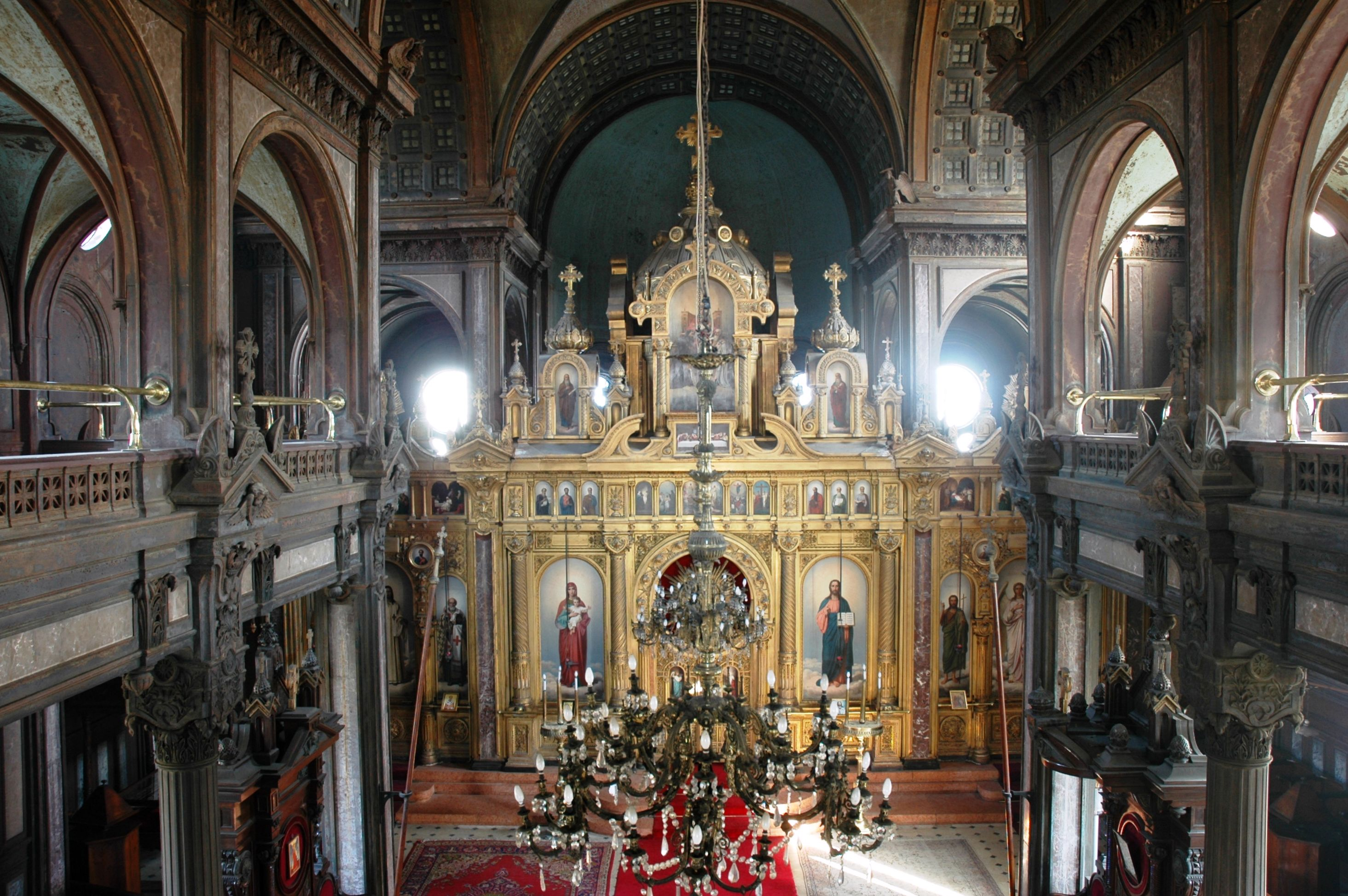 St. Stephen's Bulgarian Orthodox Church in the Phanar, Istanbul - Interior